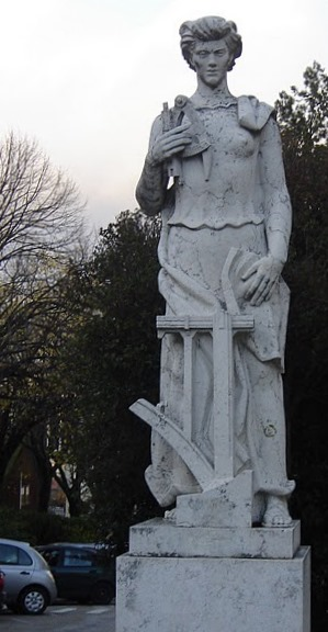 Statue “Engenharia” at IST, in Alameda campus, in Lisbon